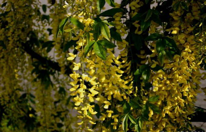 Laburnum x watereri: Flowers